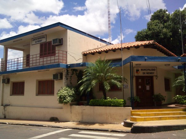 Ñemby Municipality.